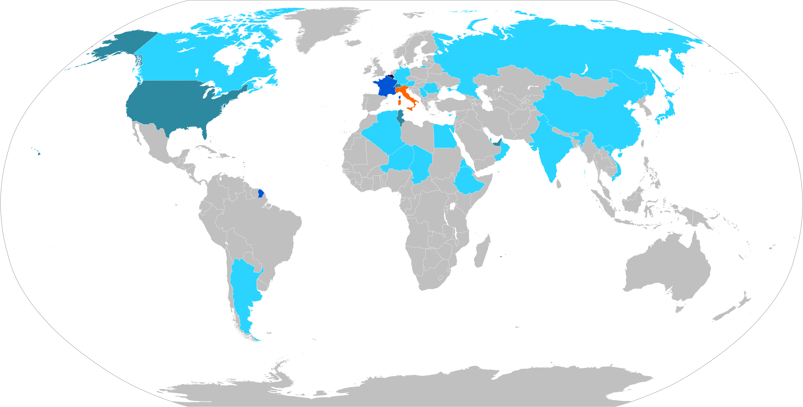 Official trips of Giuseppe Conte